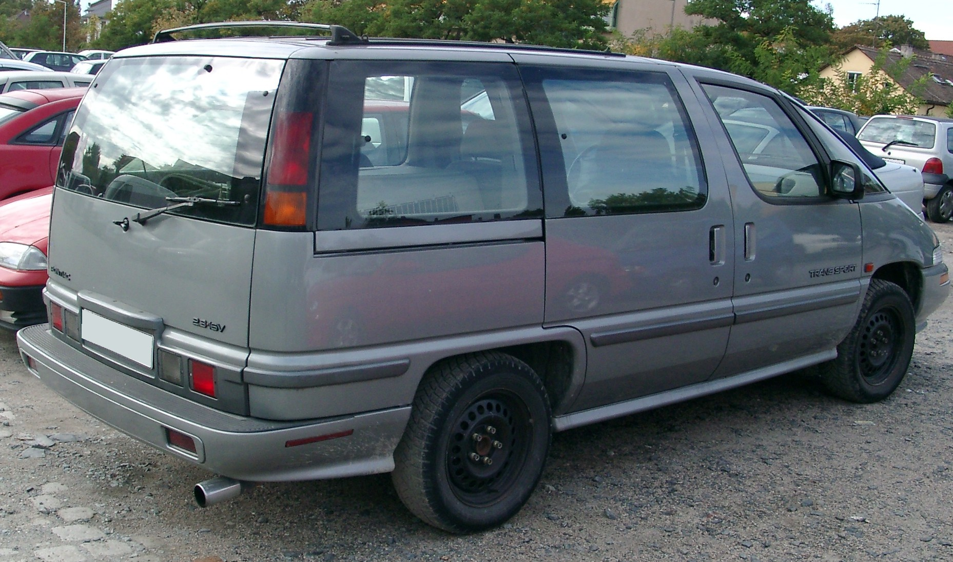 Pontiac Trans Sport 2.3 16V